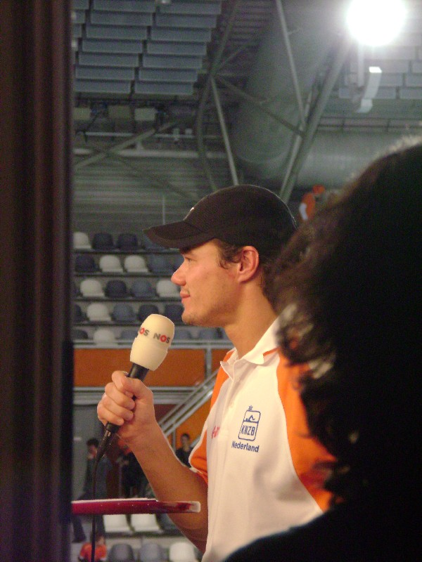 Jacco Verhaeren, coach of the Dutch swimming team at the European LC Championships 2008 in Eindhoven